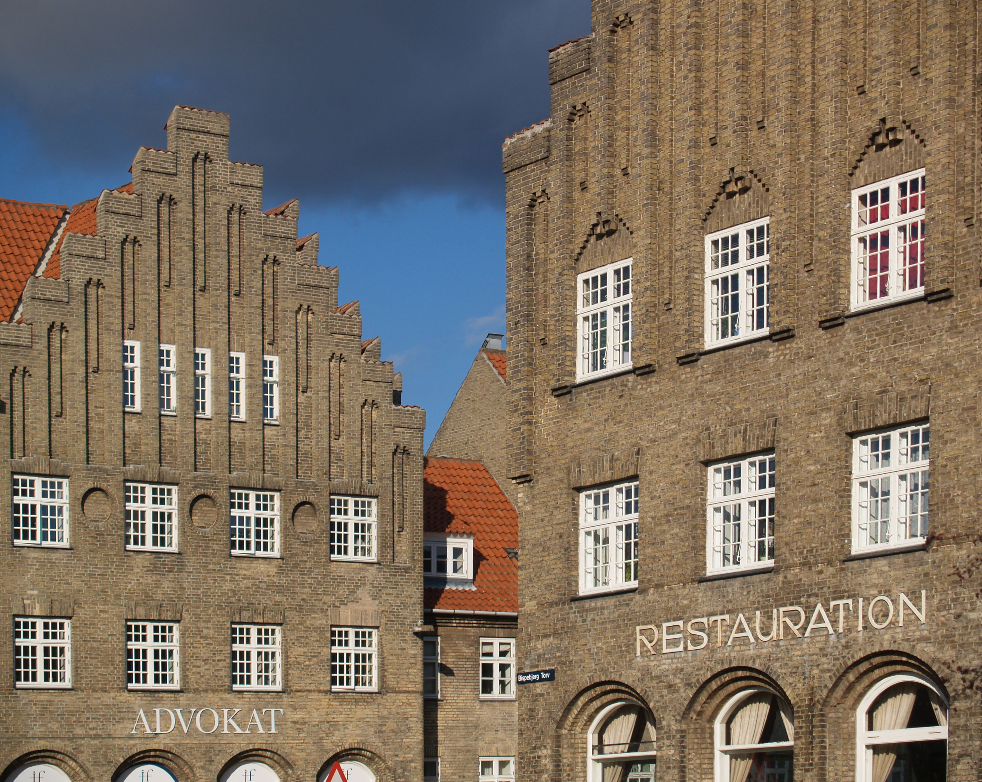 Surrounding buildings ogf Grundtvig's Church in Copenhagen, Denmark. Designed by Peder Vilhelm Jensen-Klint as part of a scheme centred around the church